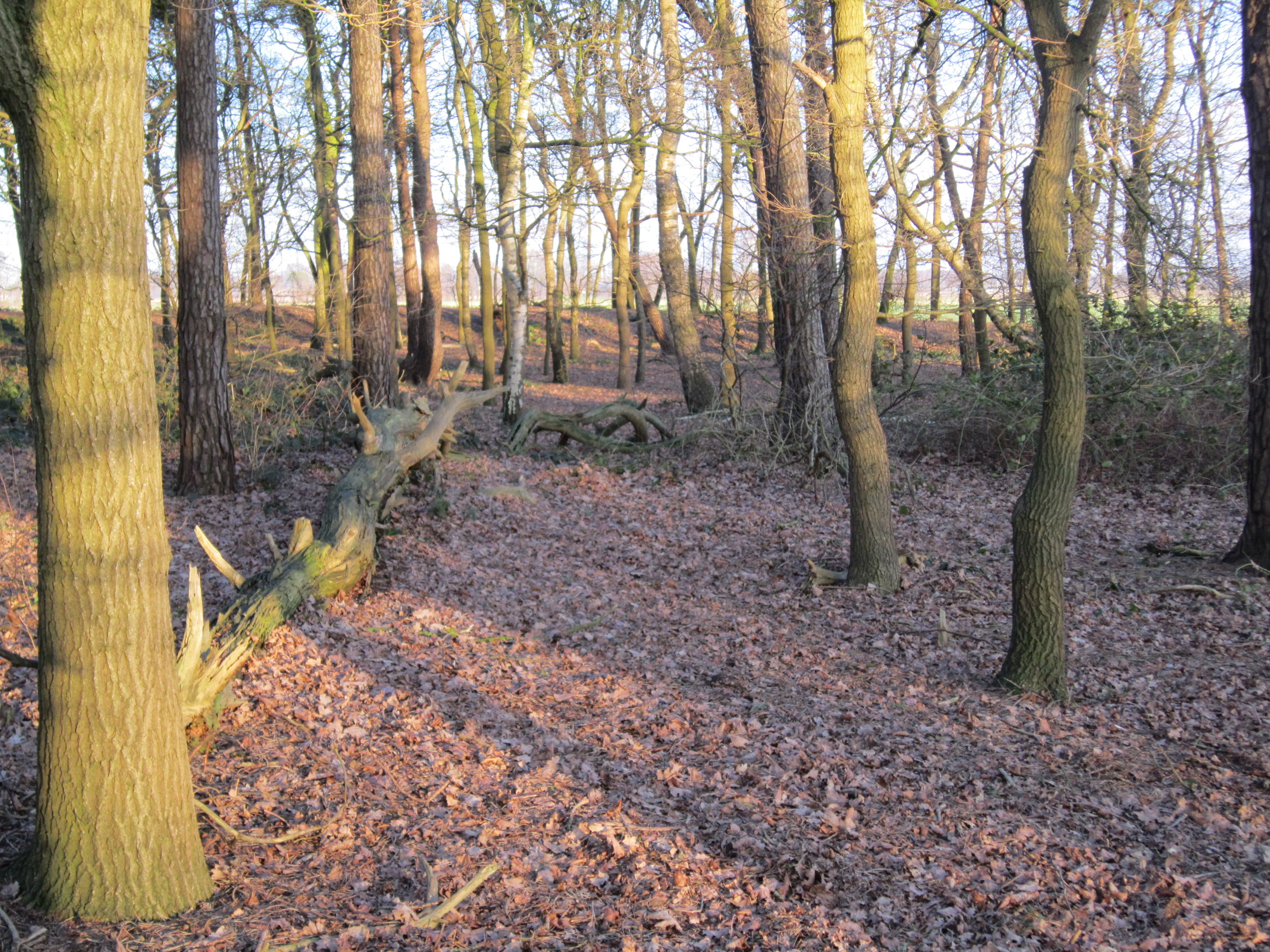 Little hill fort Sierhausen; City of Damme (Dümmer) in Lower Saxony